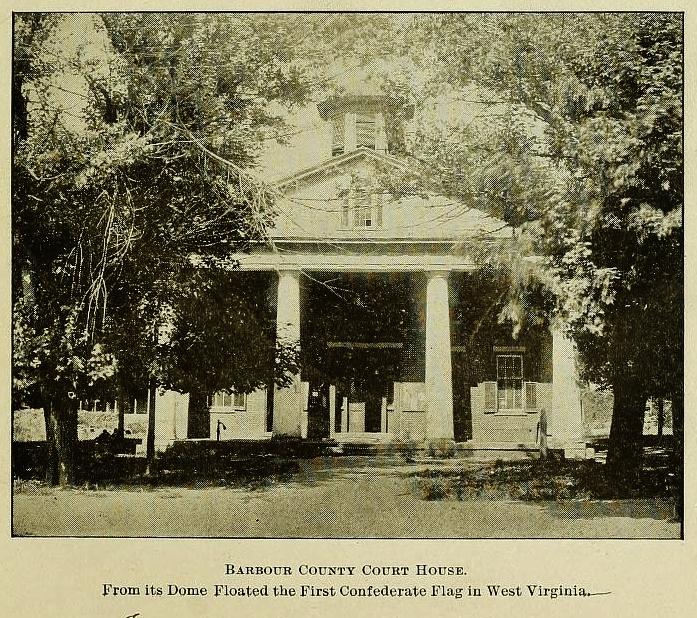 The Civil War era courthouse in Barbour County, West Virginia, in the town of Philippi.